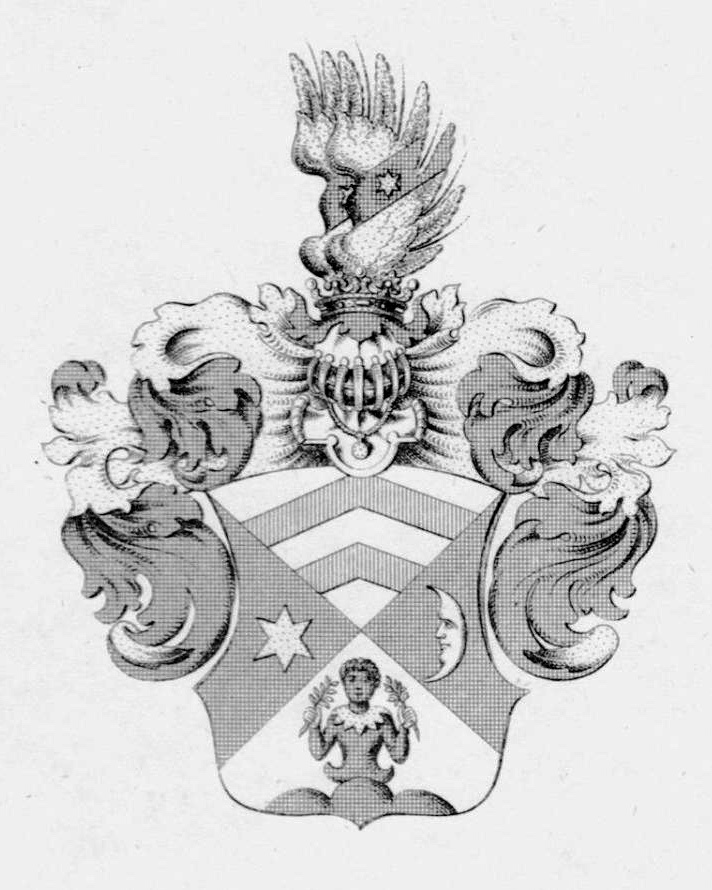 Coat of arms of german aristocratic family "von Heider"